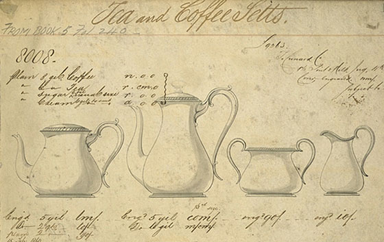 Elkington & Co., design for a tea and coffee set. Victoria and Albert Museum no. AAD/3/1979 Vol. 6